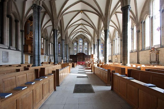 Temple Church, Temple, London EC4 - East end